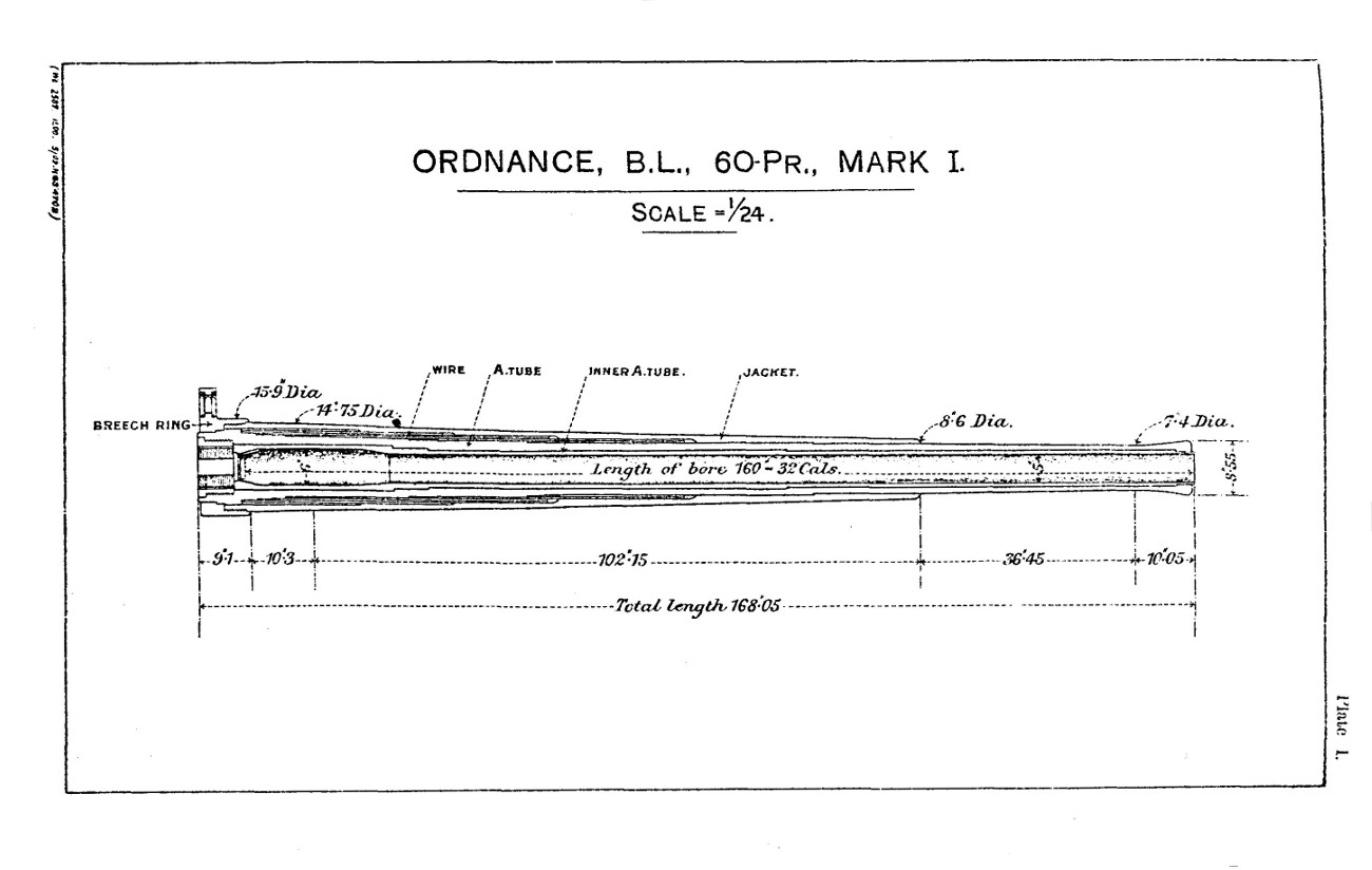 Diagram showing barrel construction of British BL 60 pounder Mark I field gun.